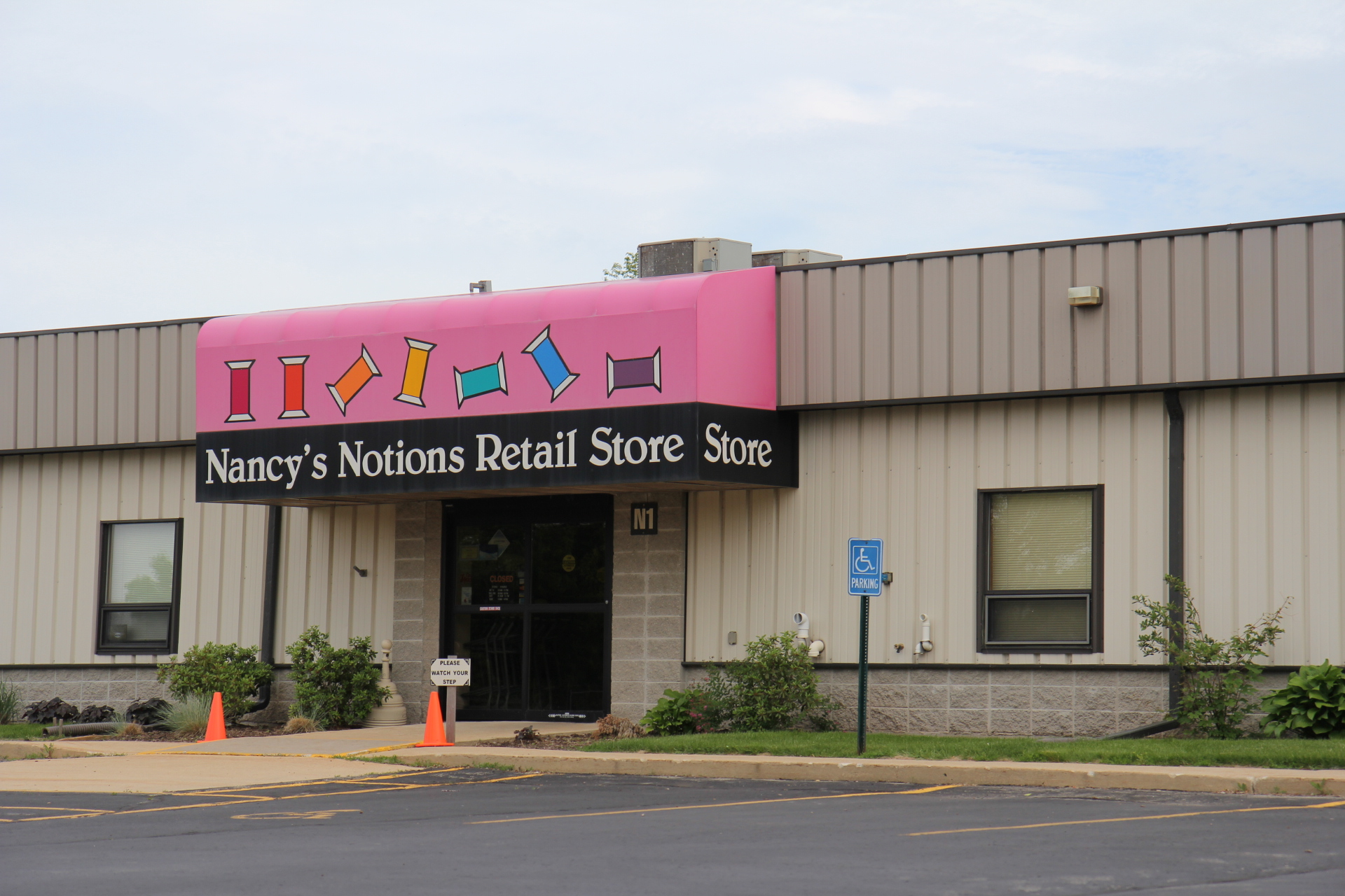 The retail store for Nancy's Notions in Beaver Dam, Wisconsin. It is a direct mail company founded by Nancy Zieman of the Sewing with Nancy fame.